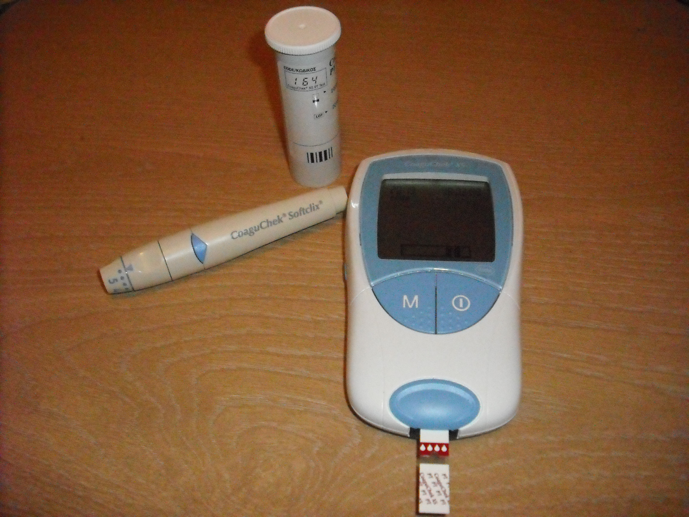 A Roche CoaguChek SoftClix lancer, a tube of test strips, and a CoaguChek XS with a test strip inserted.